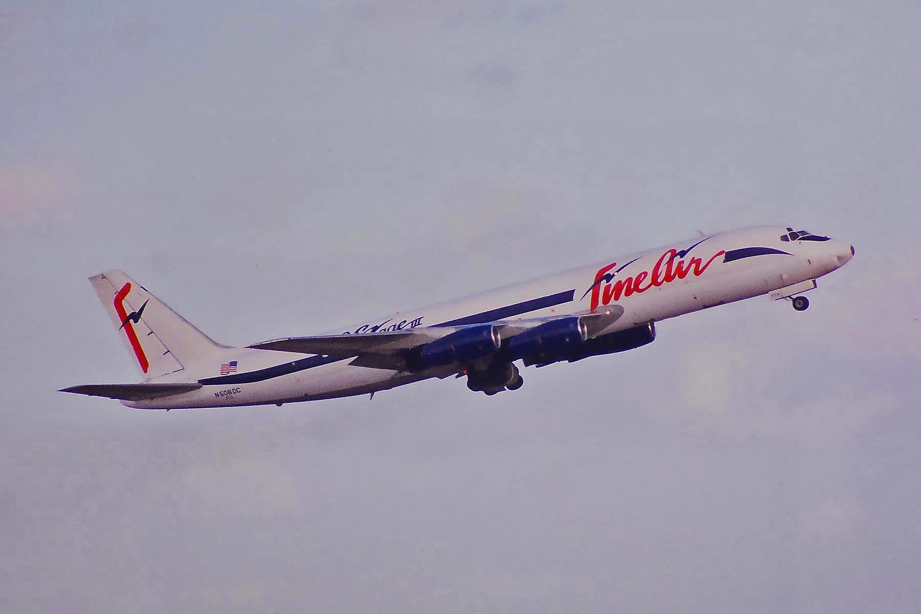 A picture of an airplane